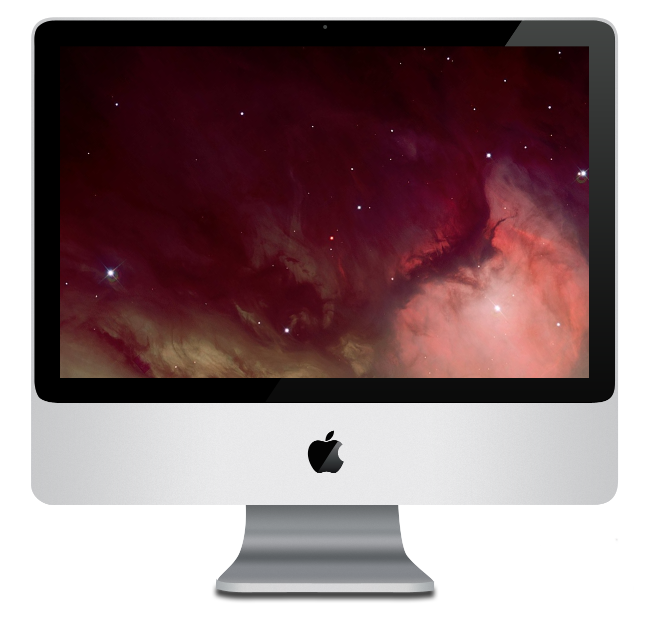 Apple iMac aluminium